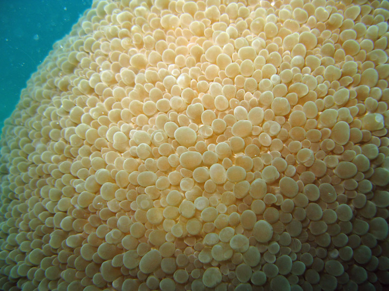 Part of a colony of Physogyra lichtensteini showing fully expanded vesicles which mask the underlying skeleton structure